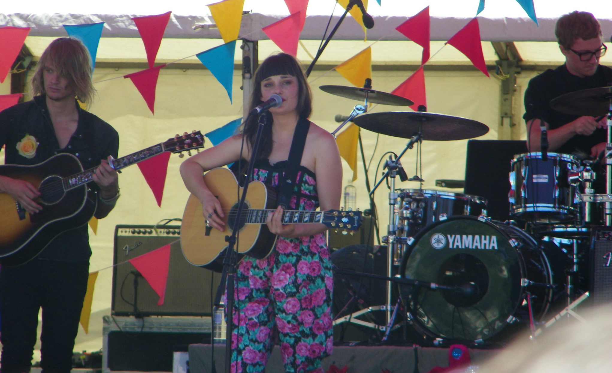 Lisa Mitchell at Big Day Out, Claremont, 31 January 2010